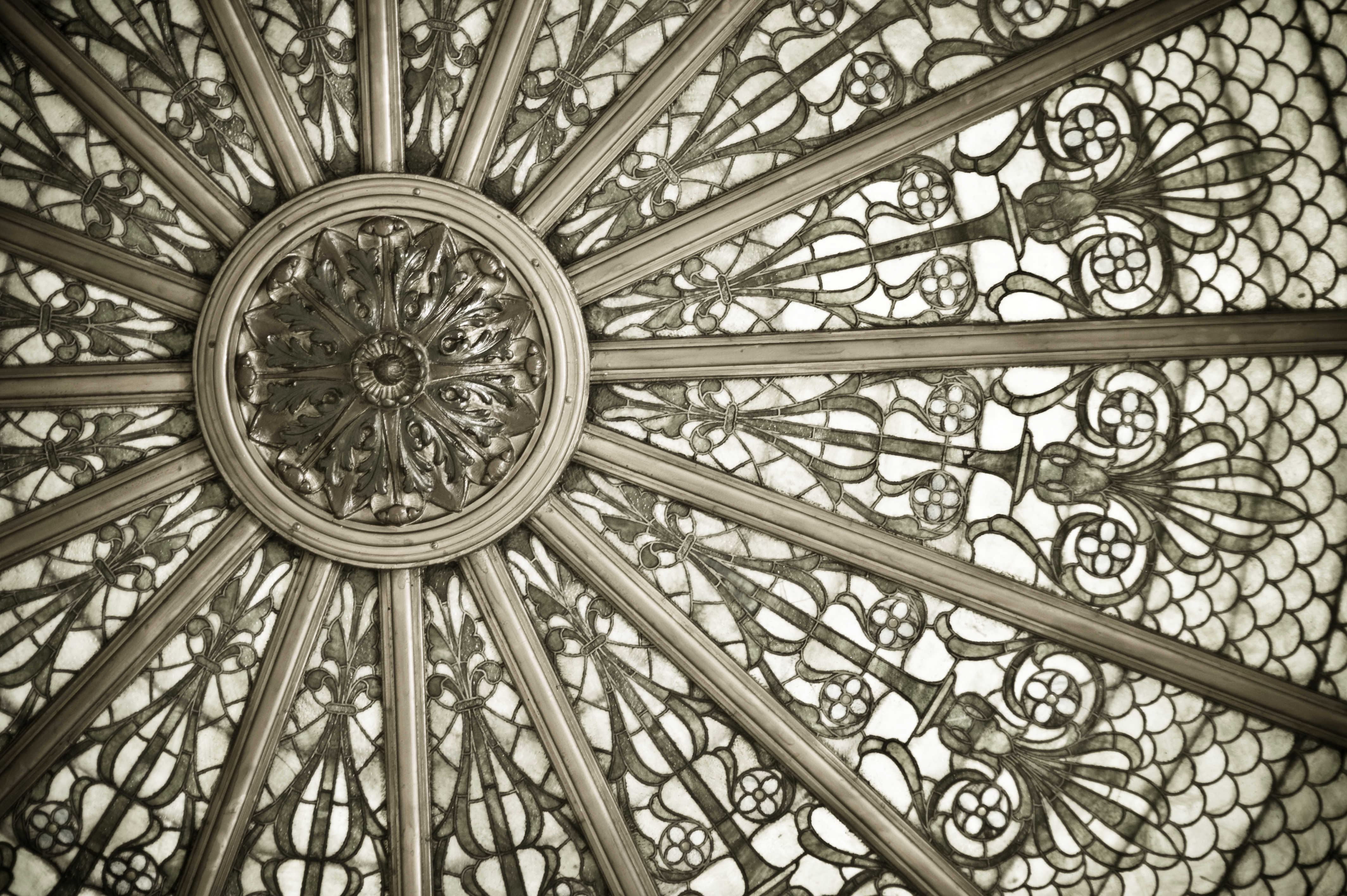 Stained glass dome inside of Fairbanks Hall on the campus of Indiana State University in Terre Haute, IN.